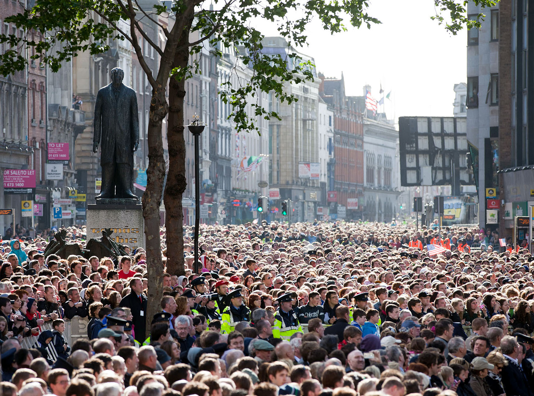 A large crowd waits for the arrival of United States President Barack Obama at College Green in Dublin, Ireland, 23 May 2011. Following a visit to Moneygall earlier in the day, the President returned to Dublin to deliver an address to the crowd.